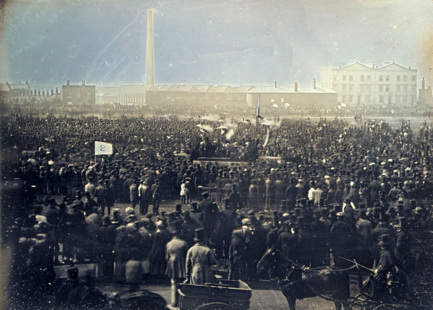 The Great Chartist Meeting on Kennington Common, April 10, 1848, photograph taken by William Kilburn. Black-and-white photograph with applied colour. Original at Windsor Castle. High-Resolution version here